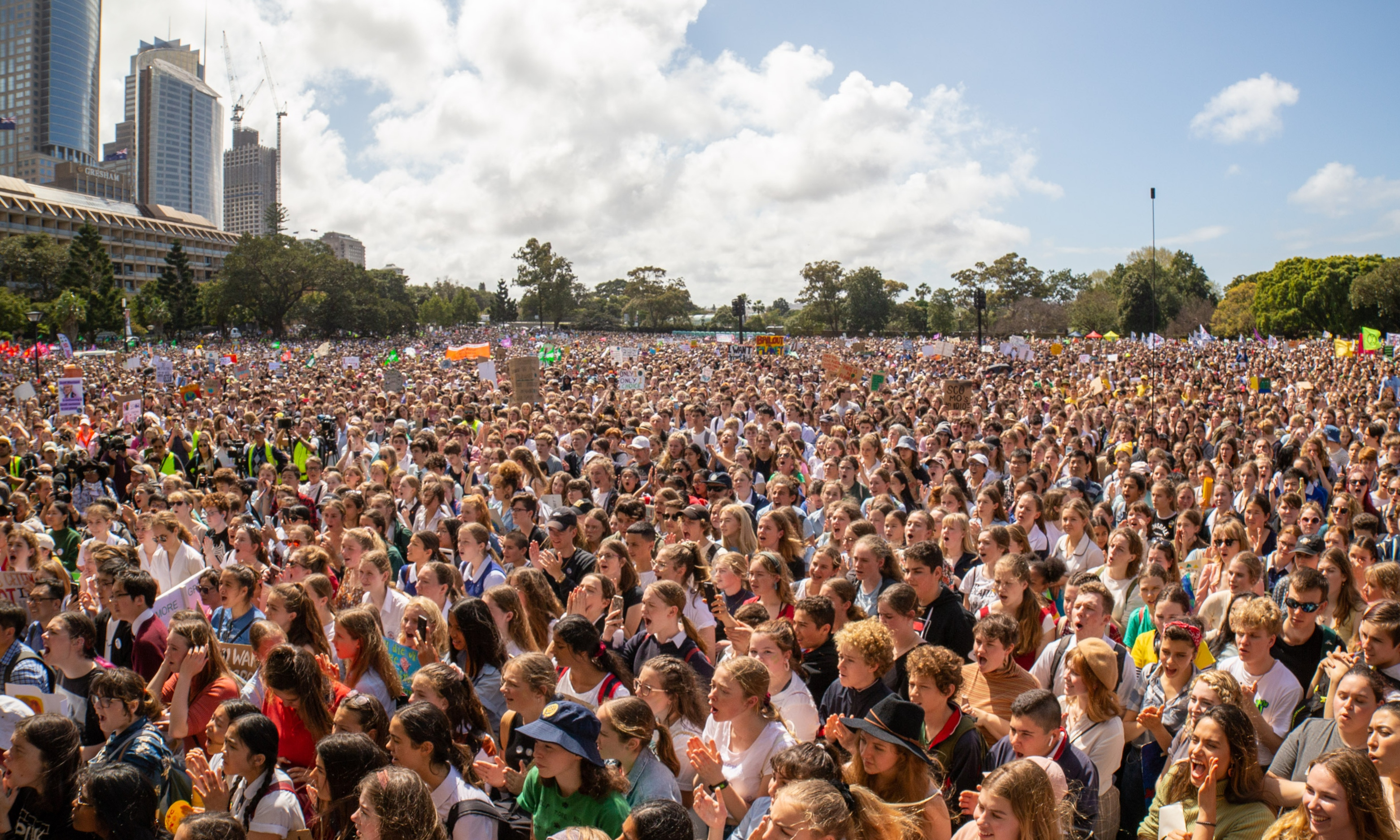 "Climate strike" protest in Sydney, Australia